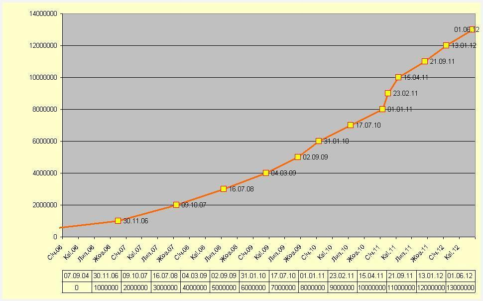 Growth of Commons - graph